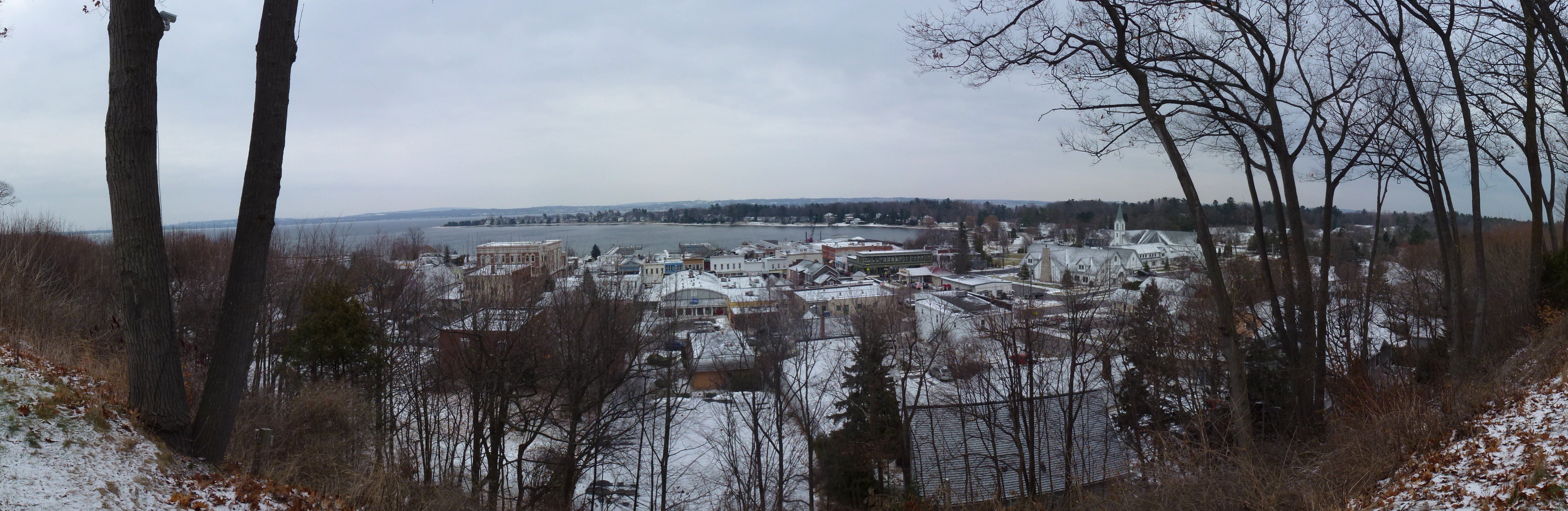 View of downtown Harbor Springs from the bluff above town.